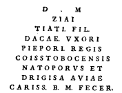 Inscription in Rome (CIL VI 1801 = ILS 854) dedicated to Zia, the queen of the Costoboci.